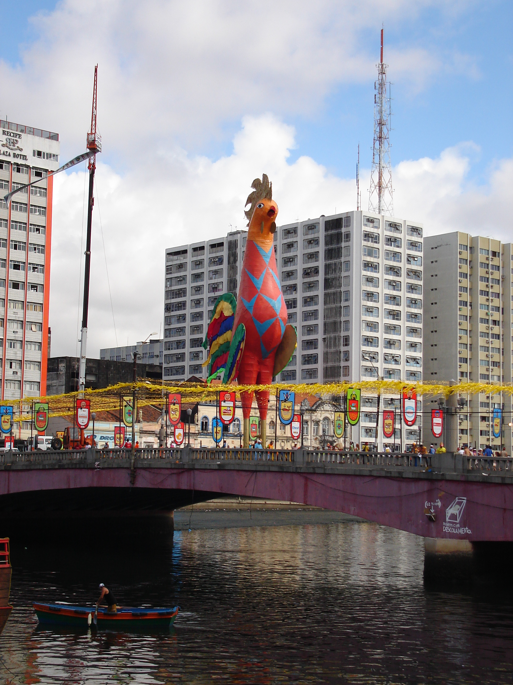 Galo da Madrugada ("Rooster of Dawn"), symbol of Carnival in Recife, Brazil.